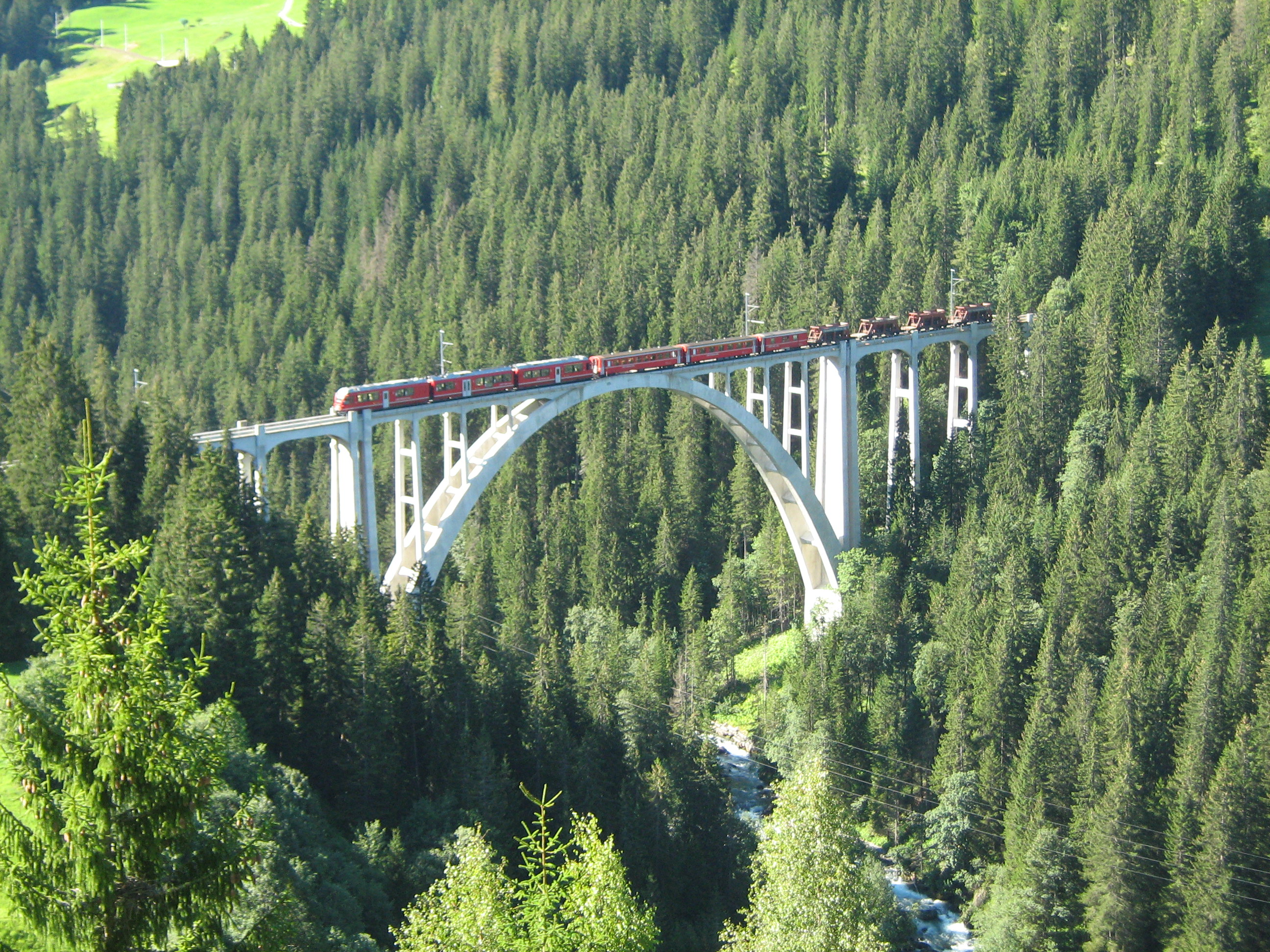 A train on the Langwieser Viadukt on the Chur-Arosa Line in Graubünden, Switzerland. August 17, 2012.